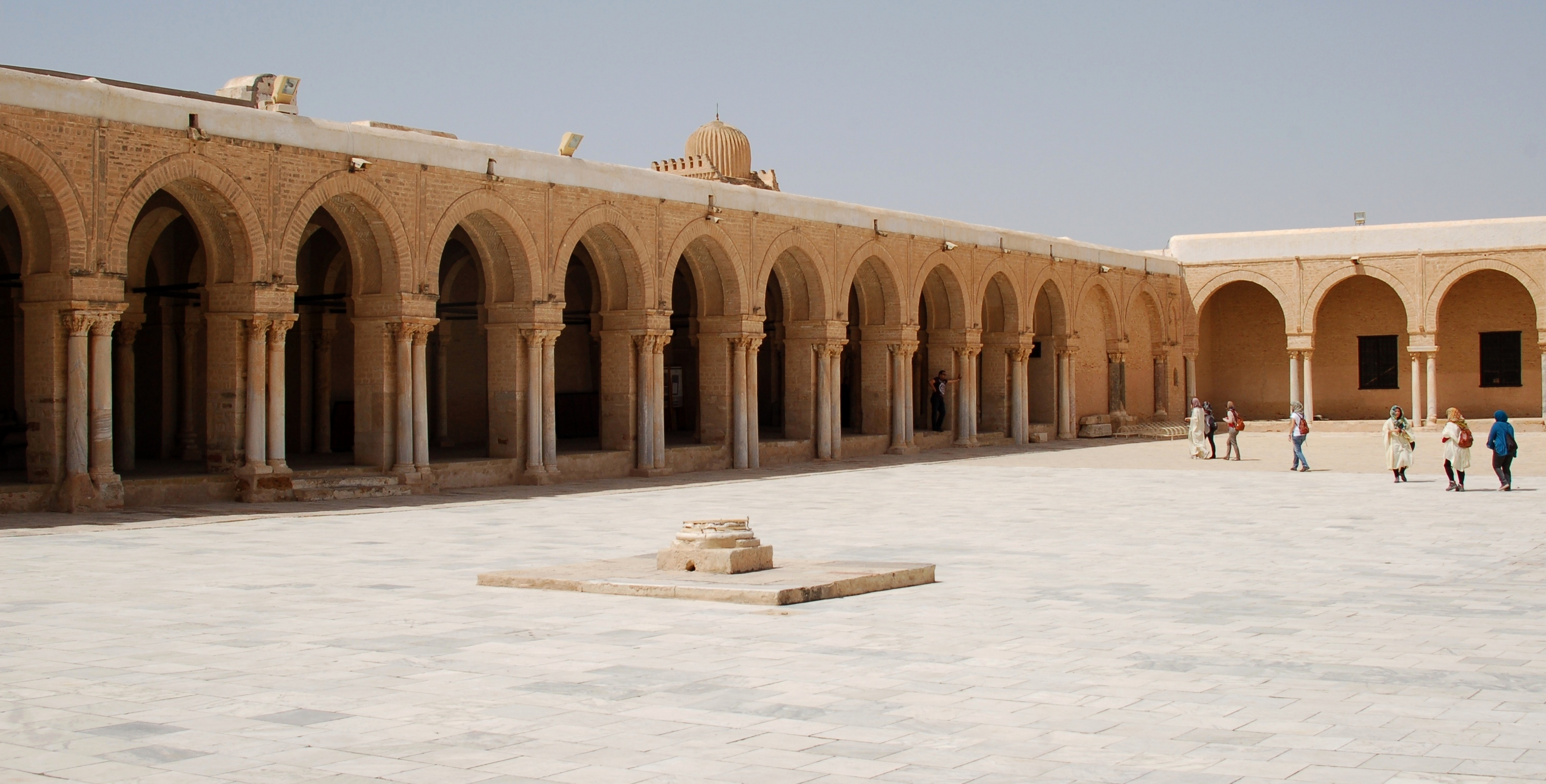 View of the west portico of the courtyard of the Great Mosque of Kairouan, in Tunisia.